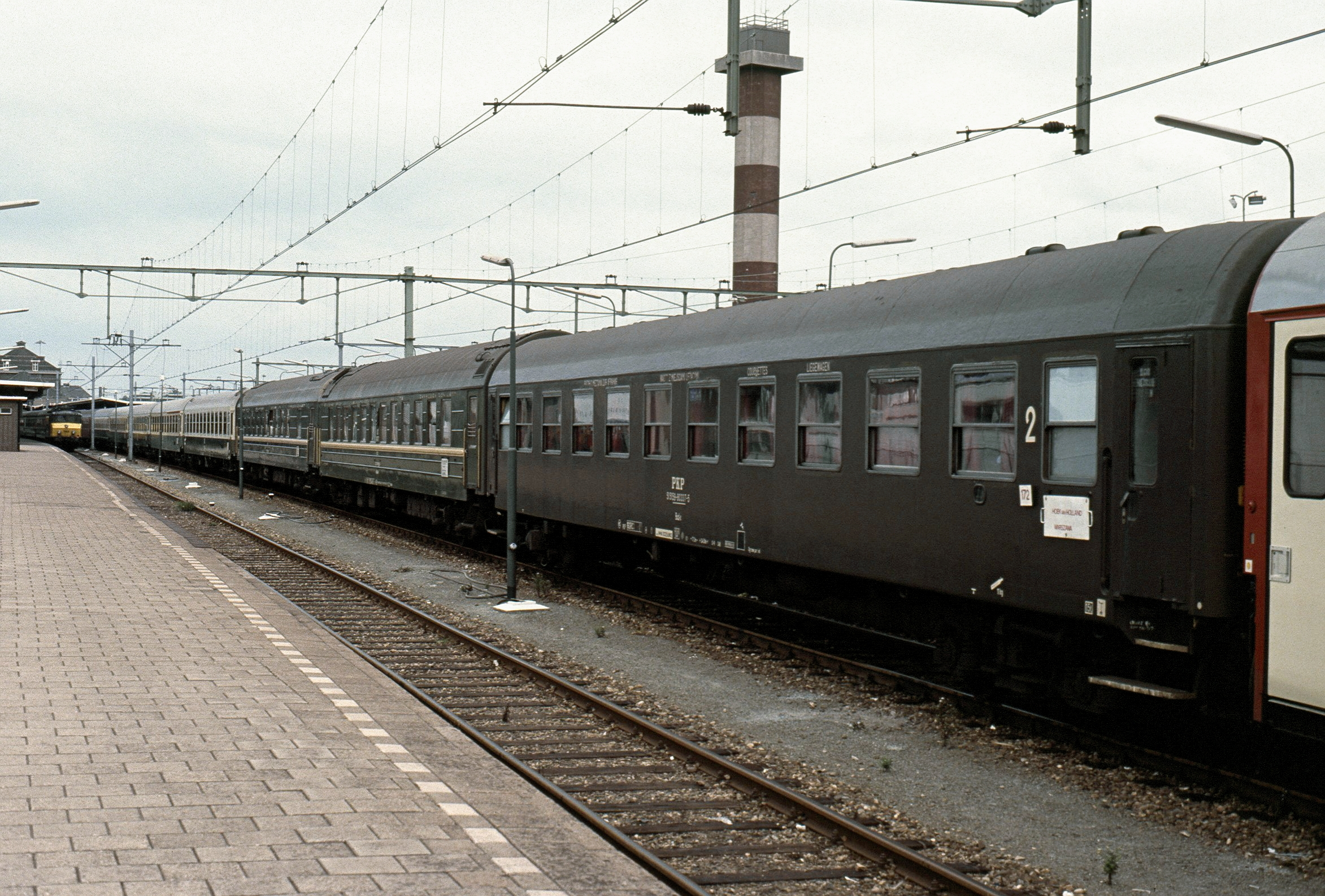 Hoek van Holland Haven train station